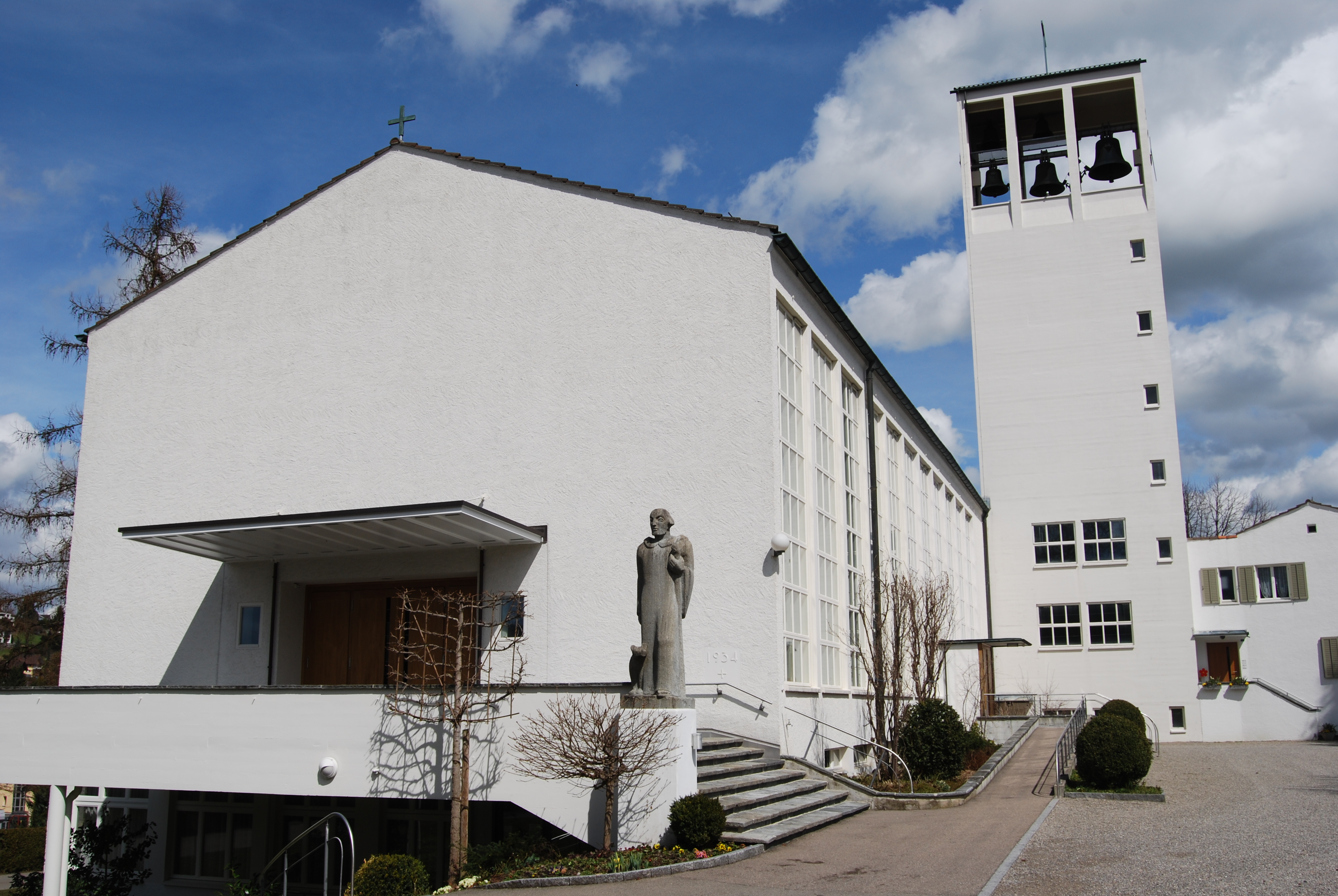 Catholic church of Oberuzwil, canton of St. Gallen, Switzerland